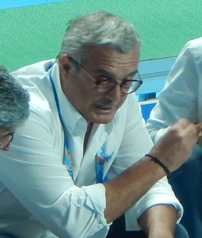 Italy's coach Alessandro Campagna, in the bronze medal match between Team Greece and Team Italy.